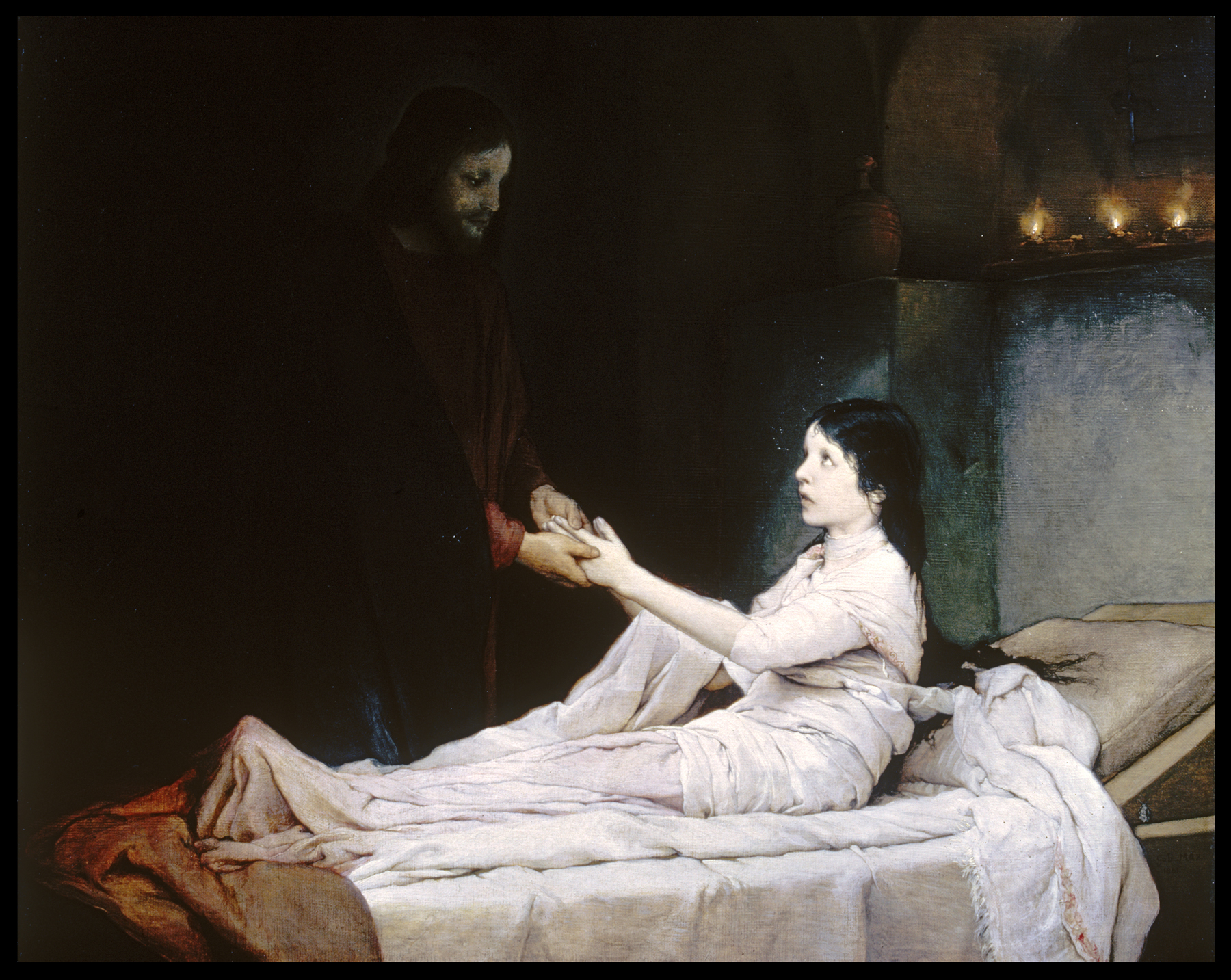 In an incident from the New Testament, related in the Gospels of Mark and Luke, Christ raises from the dead the 12-year-old daughter of Jairus, a leader of the synagogue. The model for Christ has been identified as Joseph Mair, who played the role of the Lord in the famous Oberammergau Passion Play, and the artist's first wife, Emma Kitzinger, is thought to have posed for the daughter of Jairus. Max was born in Prague, now the capital of the Czech Republic, but was trained in Vienna, Austria, and Munich, Germany, where he later became a professor. He is particularly noted for his sentimental, religious subjects.